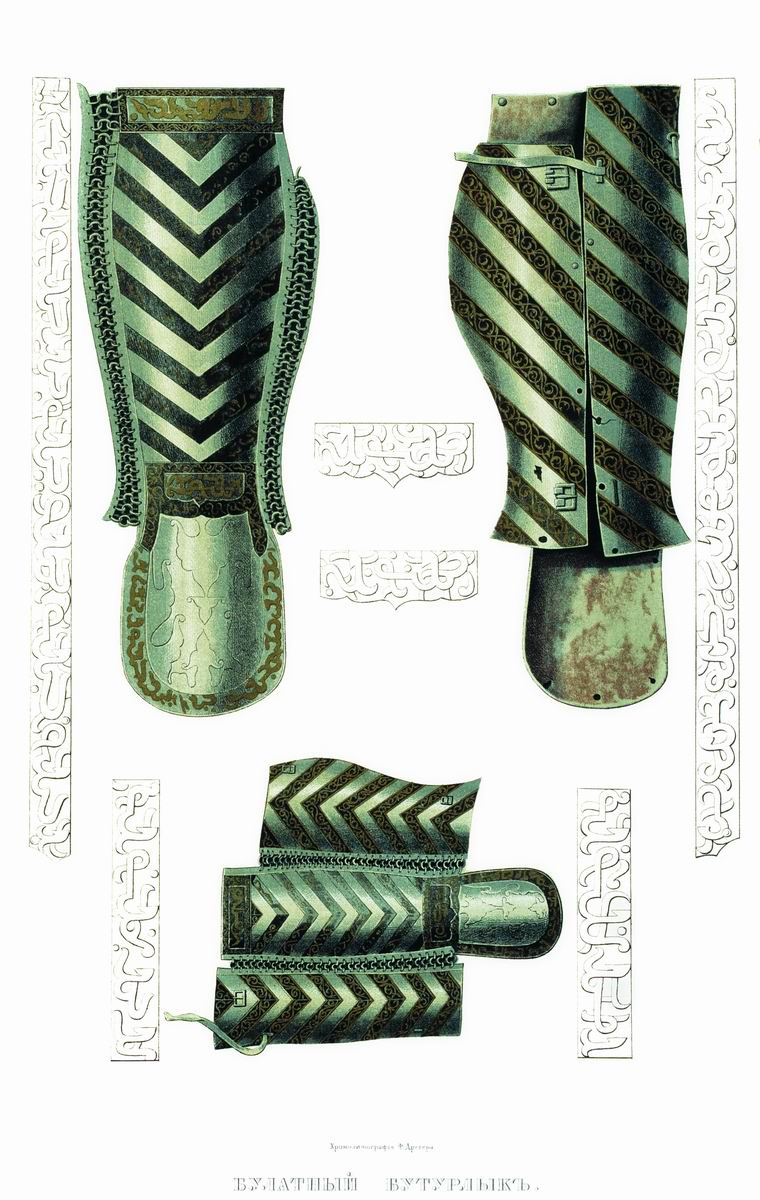 Russian greave, bulat steel. Master Grigory Viatkin.